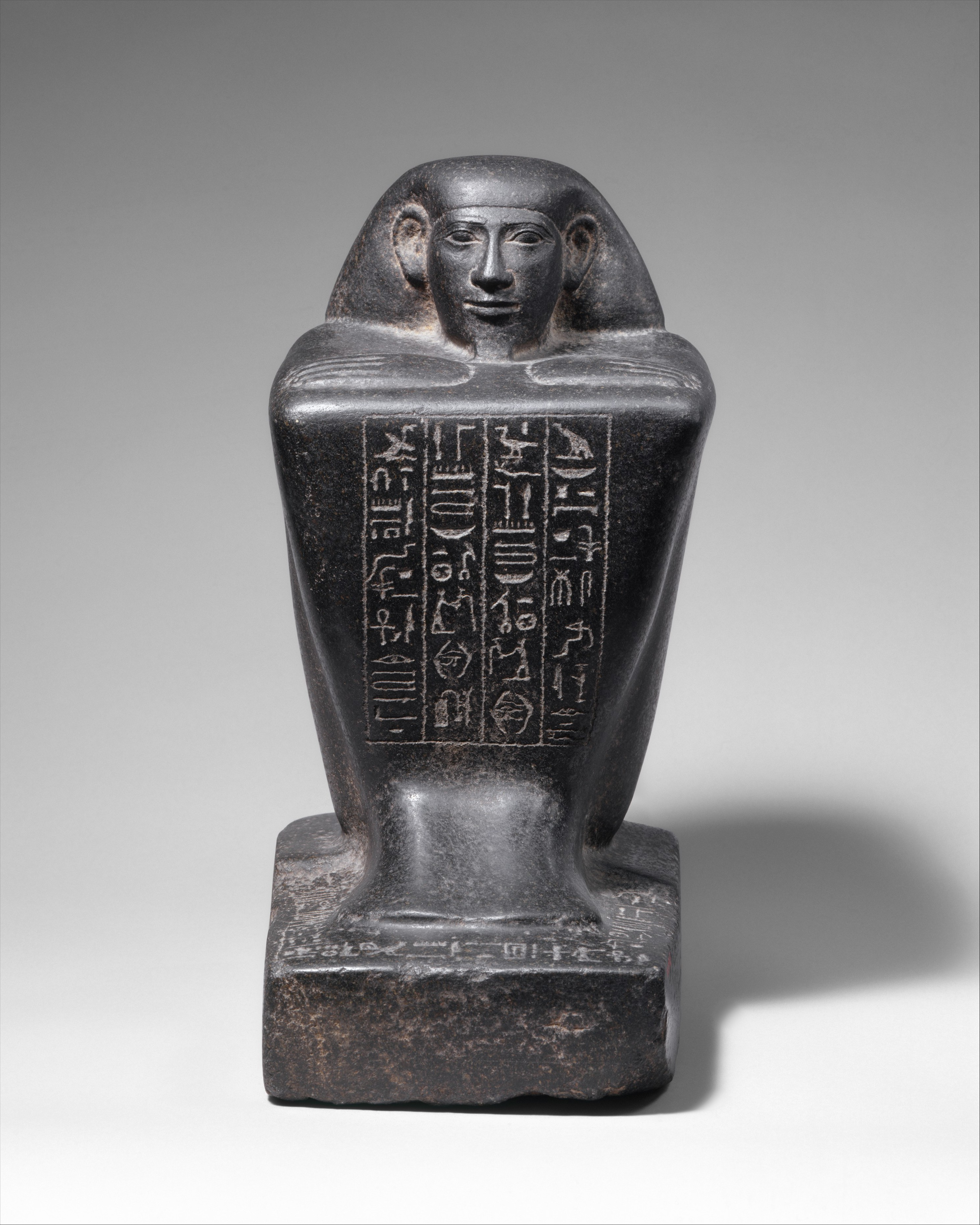 Block statue, Djedkhonsuefankh